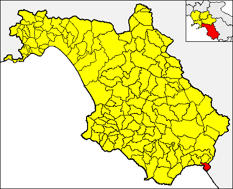 Locator map of the municipality of Sapri (red) within the Province of Salerno